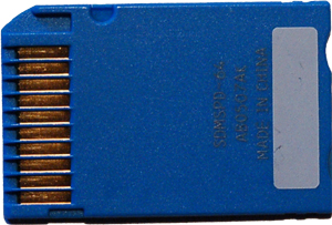 Memory Stick